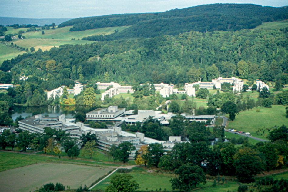 The University of Stirling was founded in 1967, and was still growing in 1990. This is the campus, seen from the Wallace Tower.